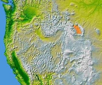 Bighorn Basin in Wyoming © 2004 Matthew Trump